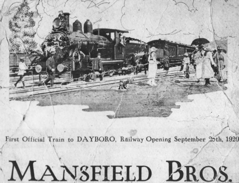 Advertisement for opening of railway to Dayboro, 1920 Caption under picture reads: Mansfield Bros. First official train to Dayboro, railway opening September 20th, 1920.